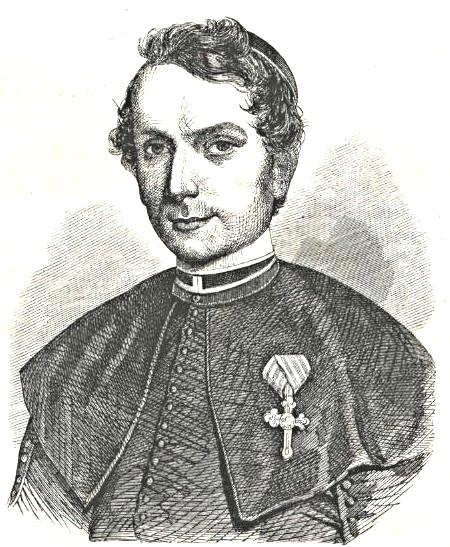 Portrait of Lajos Haynald